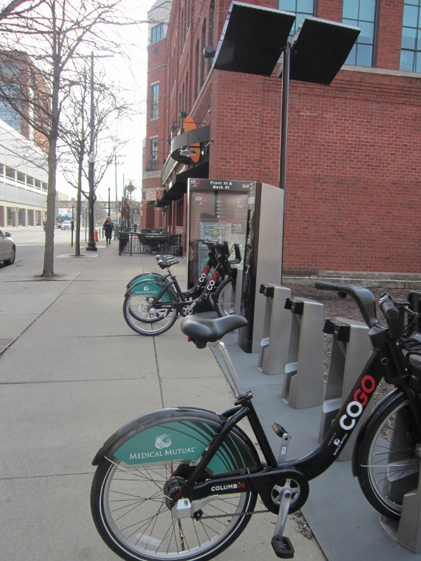 COGO bike share in brewery district